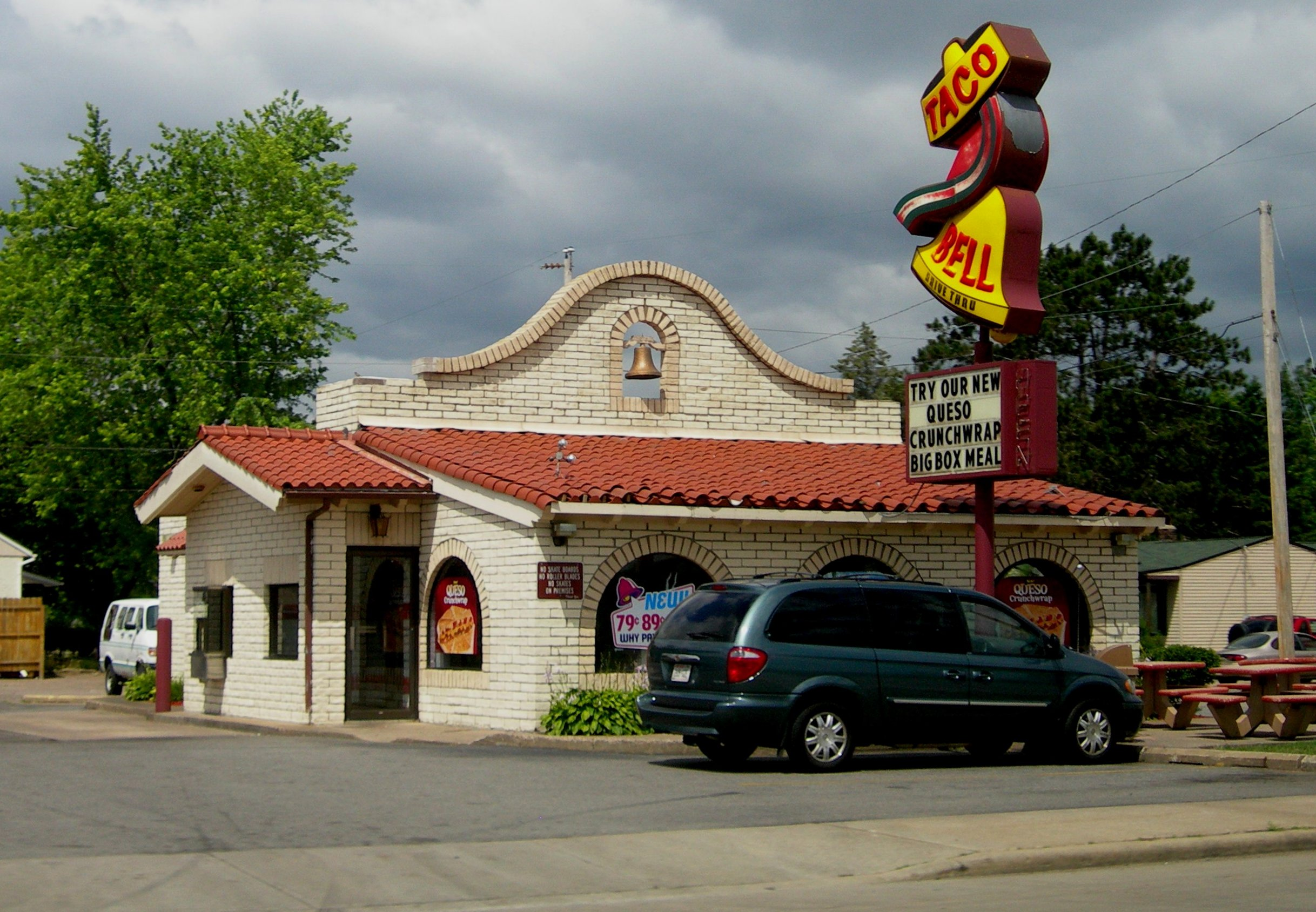 Original design for Taco Bell restaurants. Taco Bell in Wausau, Wisconsin